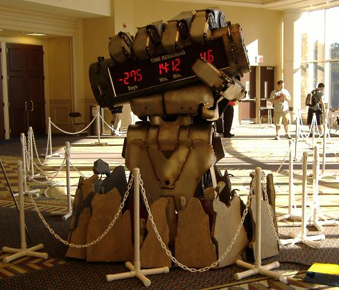 A promotional display for the 2007 Transformers movie at BotCon 2006. The same display appeared at 2007's Toy Fair.[1]